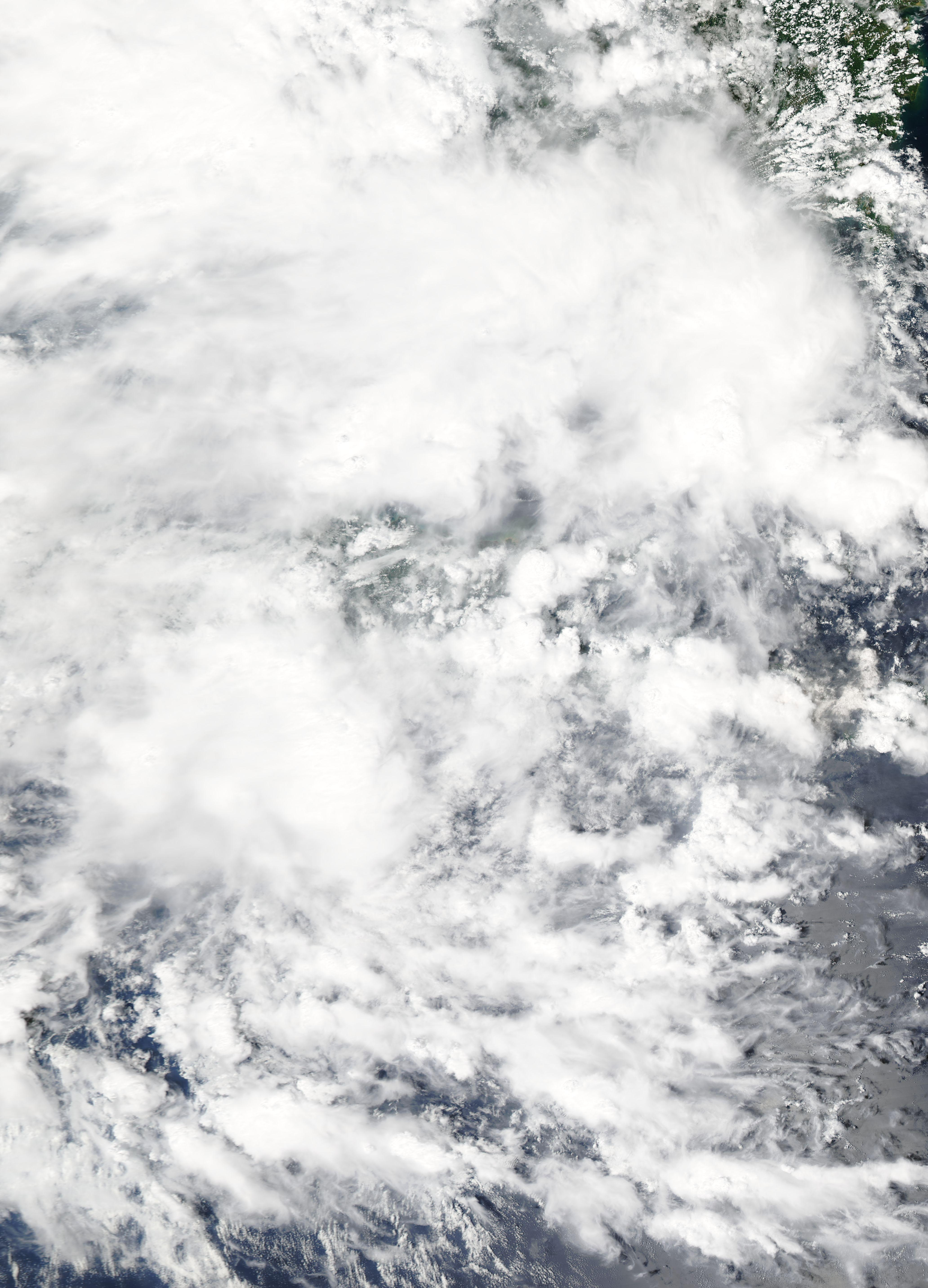 Cyclone Cempaka (03U / 01S) off the coast of Java on 27 November 2017